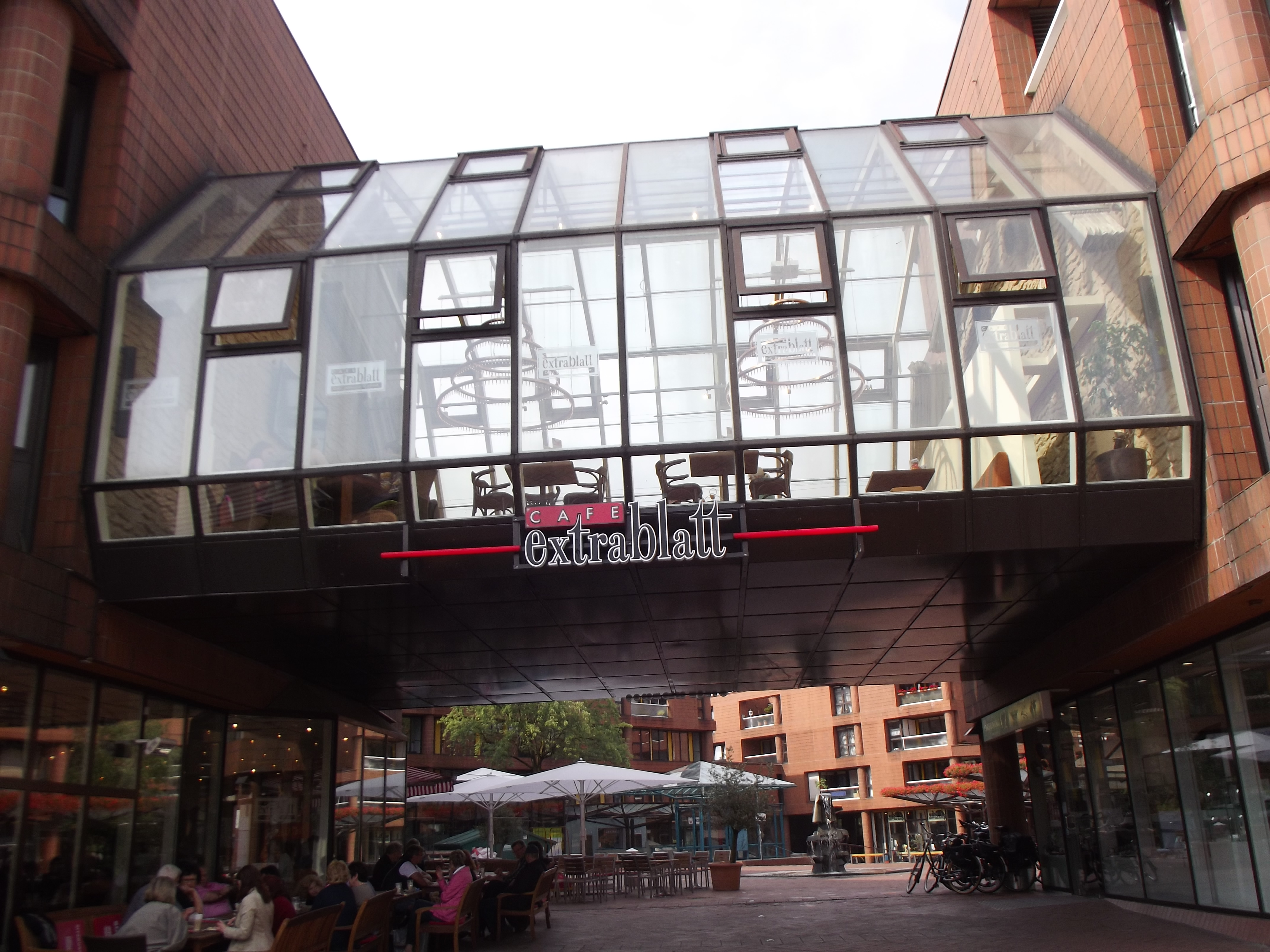 Pedestrian overpass in Münster